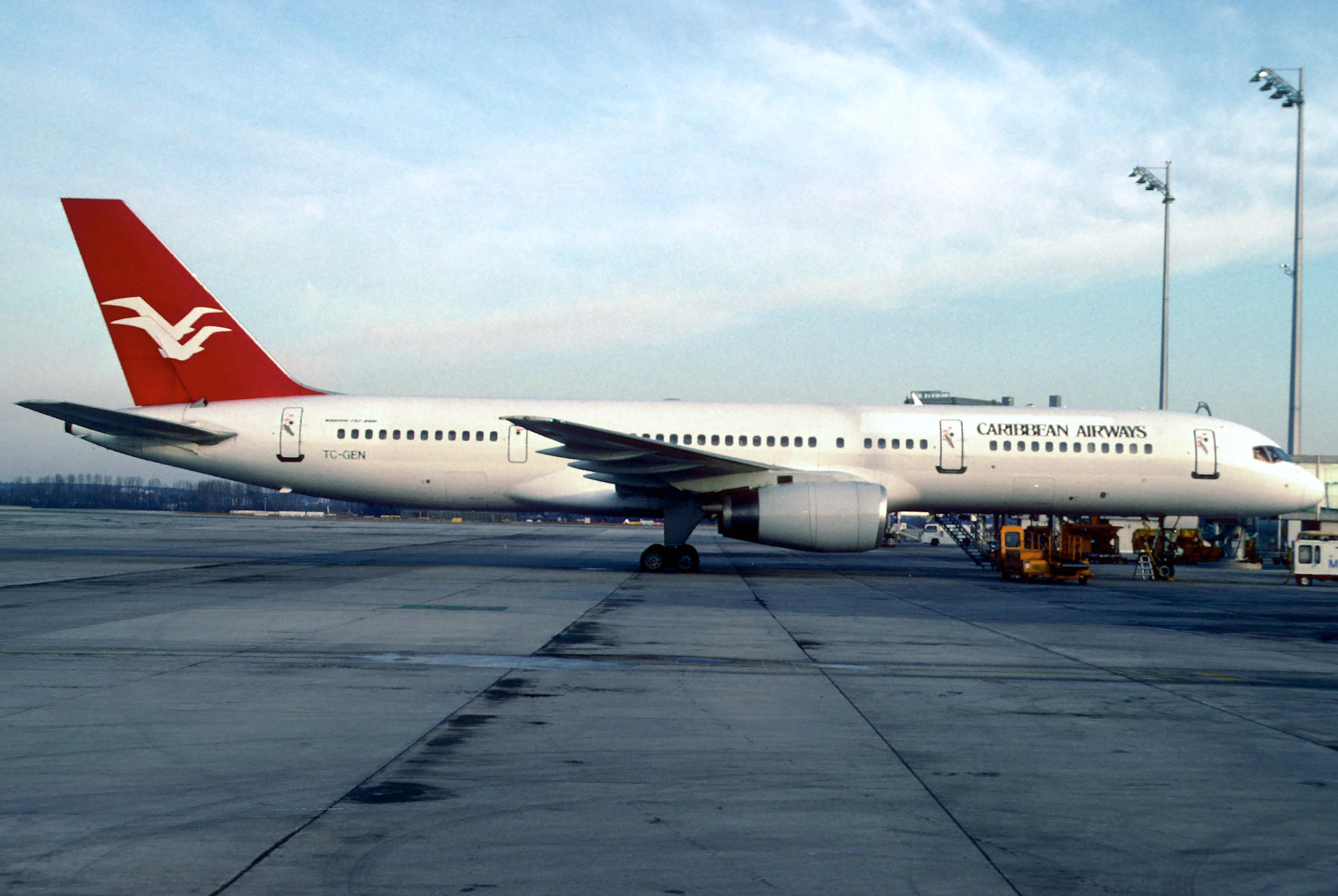 This 757 crashed on February 6, 1996 with Birgenair at Puerto Plata, Dominican Republic operating for Alas Nacionales. All 189 people onboard were killed. The Boeing 757 took its first flight on February 3, 1984... 26/02/1985 Eastern Airlines N516EA 20/05/1992 Nationair C-FNXN 01/05/1993 Aeronautics Leasing N7079S 14/07/1993 Birgenair TC-GEN 19/12/1994 International Caribbean Airways 8P-GUL 31/03/1995 Birgenair TC-GEN